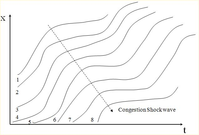 Time-space diagram showing propagation of a congestion shock wave